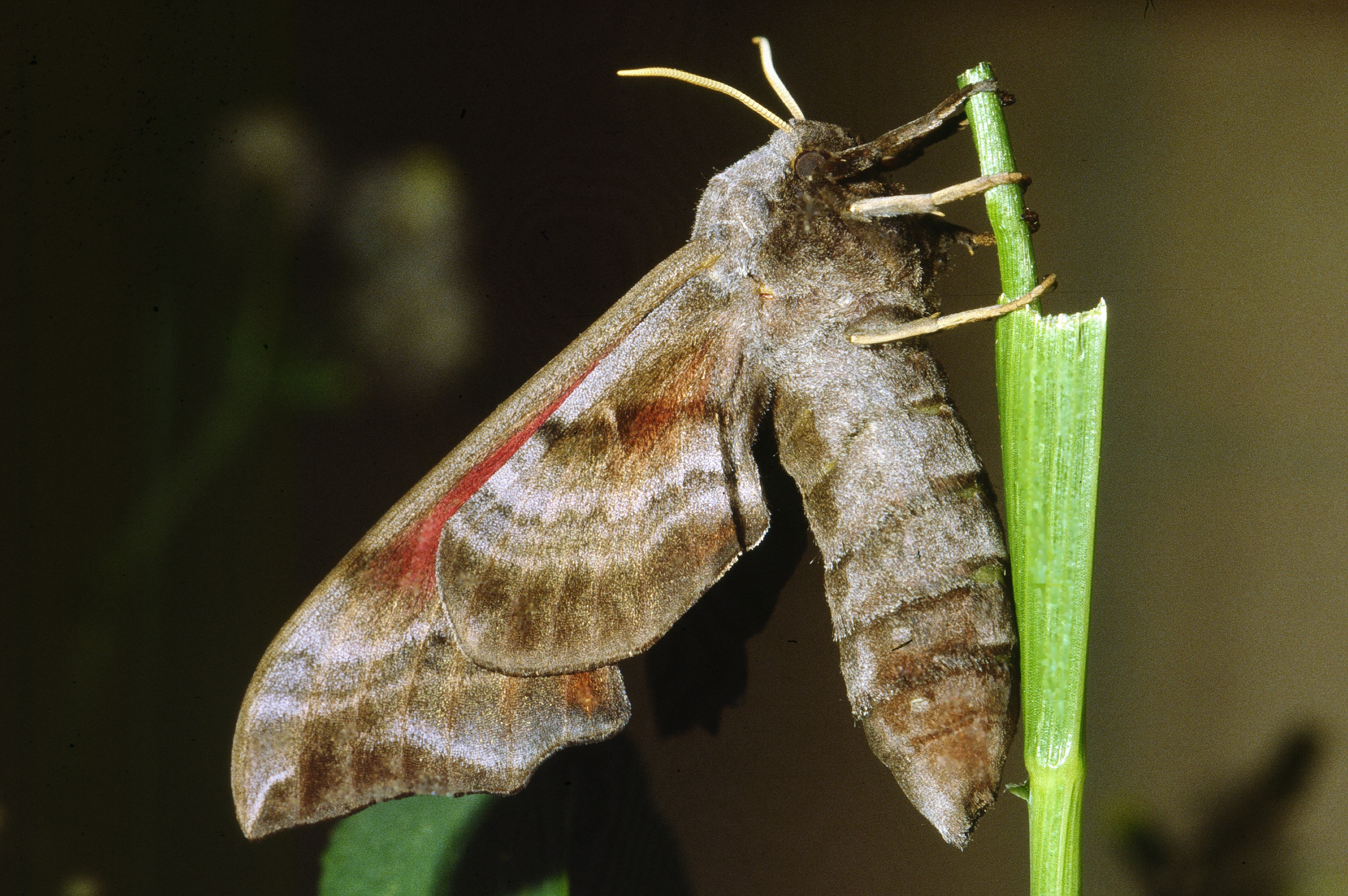 Smerinthus ocellata